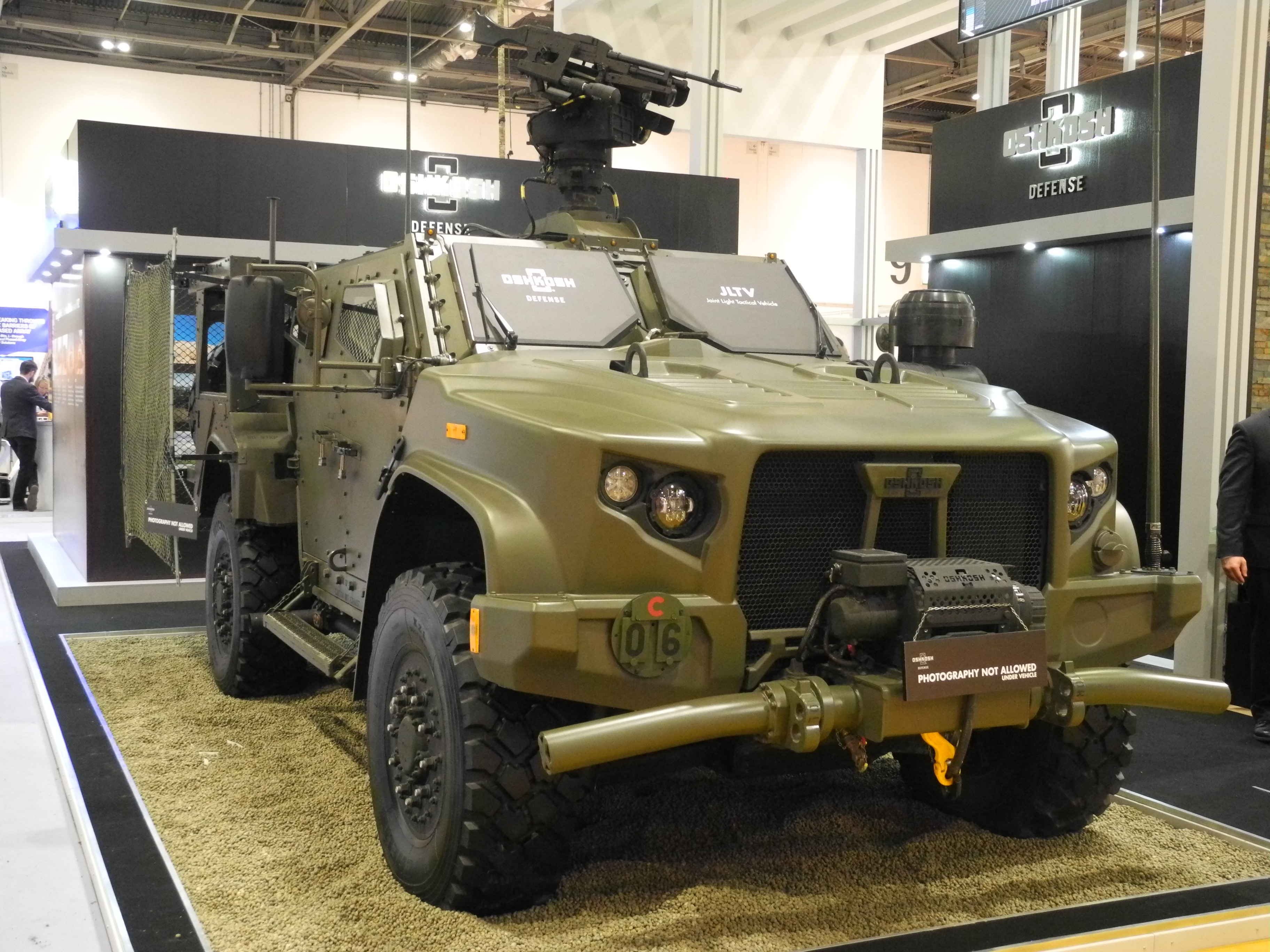 Shown at DSEi 2017, an Oshkosh L-ATV JLTV in British Army green and fitted with UK-specific equipment.